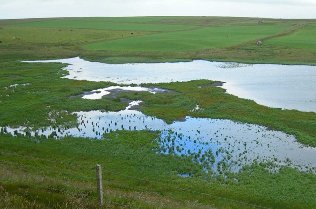 Mill Dam RSPB wetlands, extreme northern verge, Shapinsay. The photo is taken from a ridgetop somewhat north of the hide.